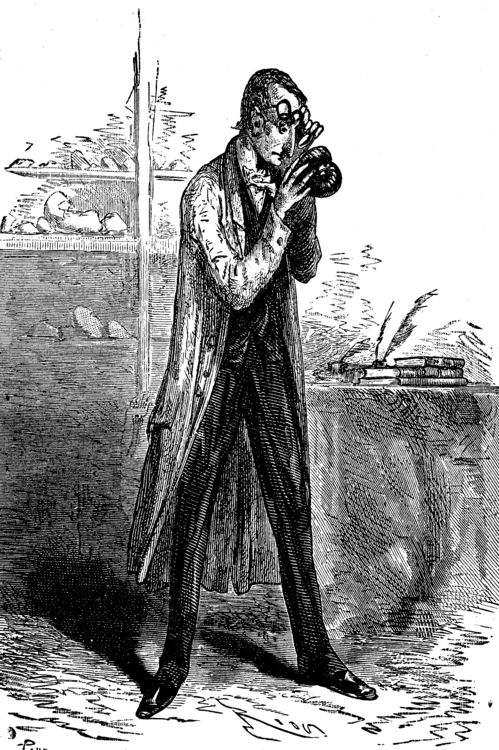 An ilustration from the novel "Journey to the Center of the Earth" by Jules Verne painted by Édouard Riou.